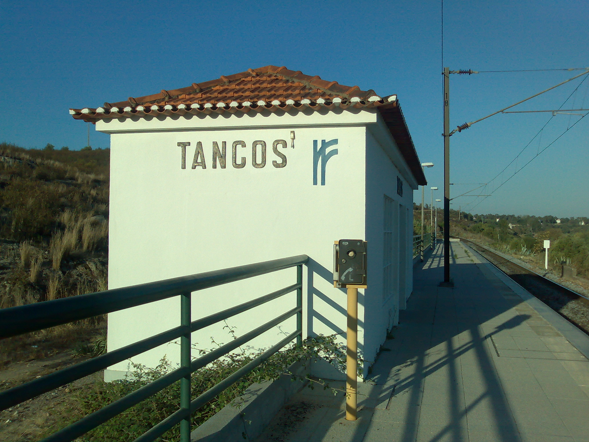 Tancos train station, Portugal.